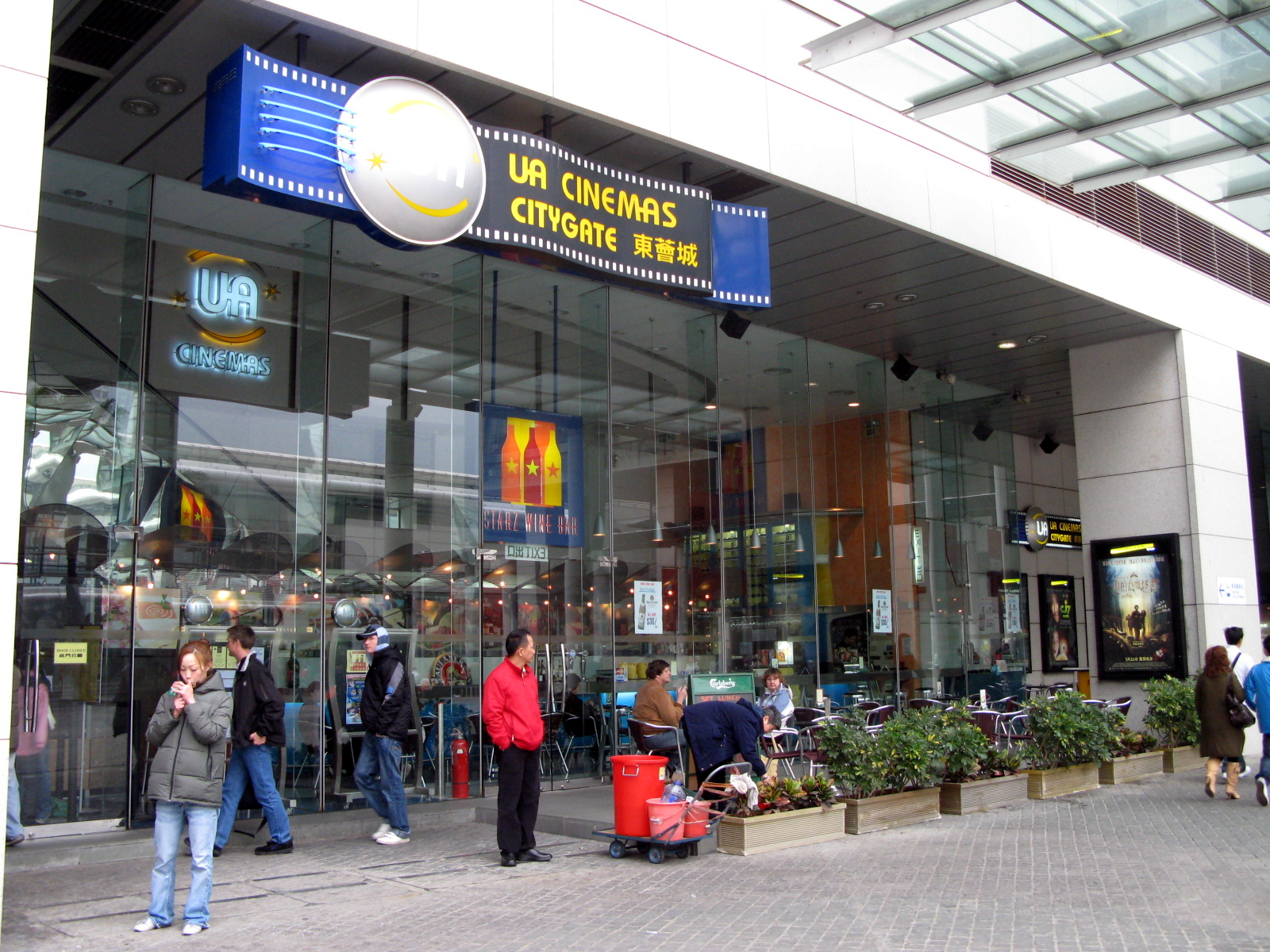 HK UA Cinemas in Citygate Outlet